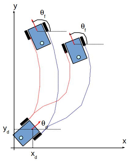 Mobile robotic : two identical Wheel distance but two different final position